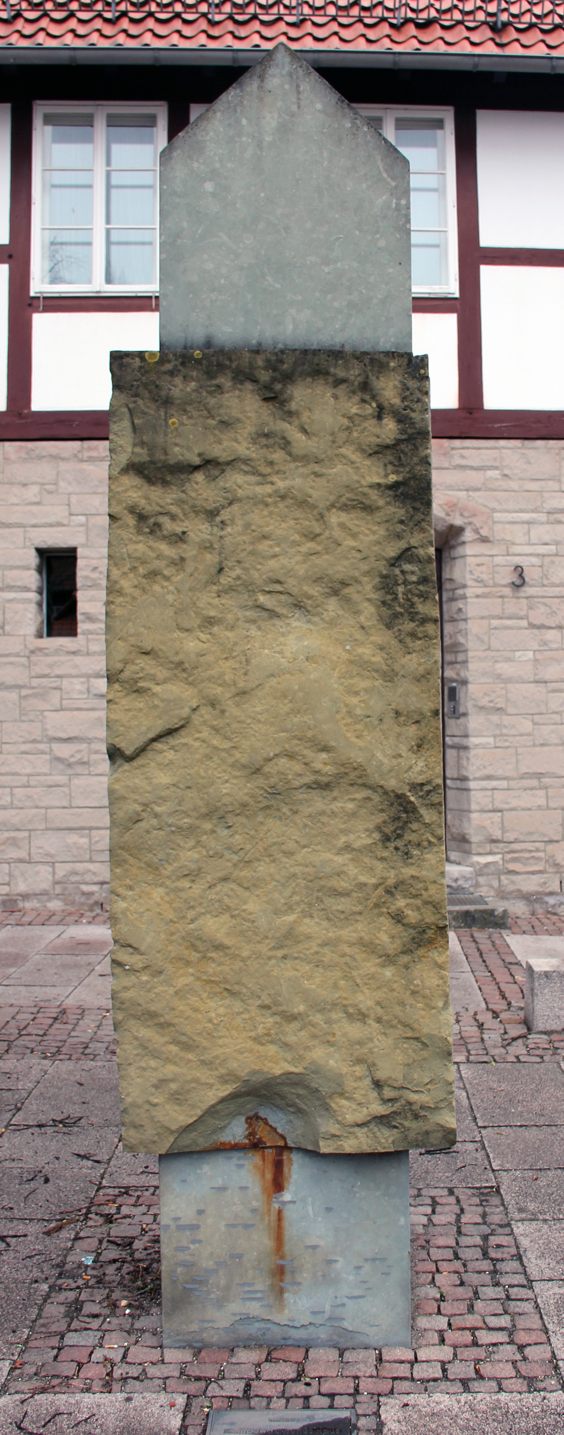 Sculpture, "Steinbewachsenes Haus" by Wolf Bröll, 1994, Am Gropenmarkt, Duderstadt, Germany